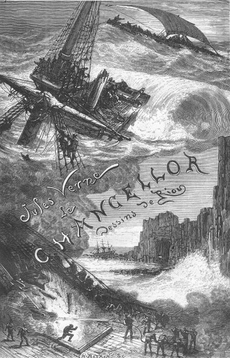 An ilustration from the novel "The Survivors of the Chancellor: Diary of J. R. Kazallon, Passenger" by Jules Verne drawn by Édouard Riou.